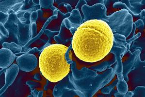 Scanning electron micrograph of Staphylococcus aureus bacteria (gold) outside a white blood cell (blue). Credit: NIAID